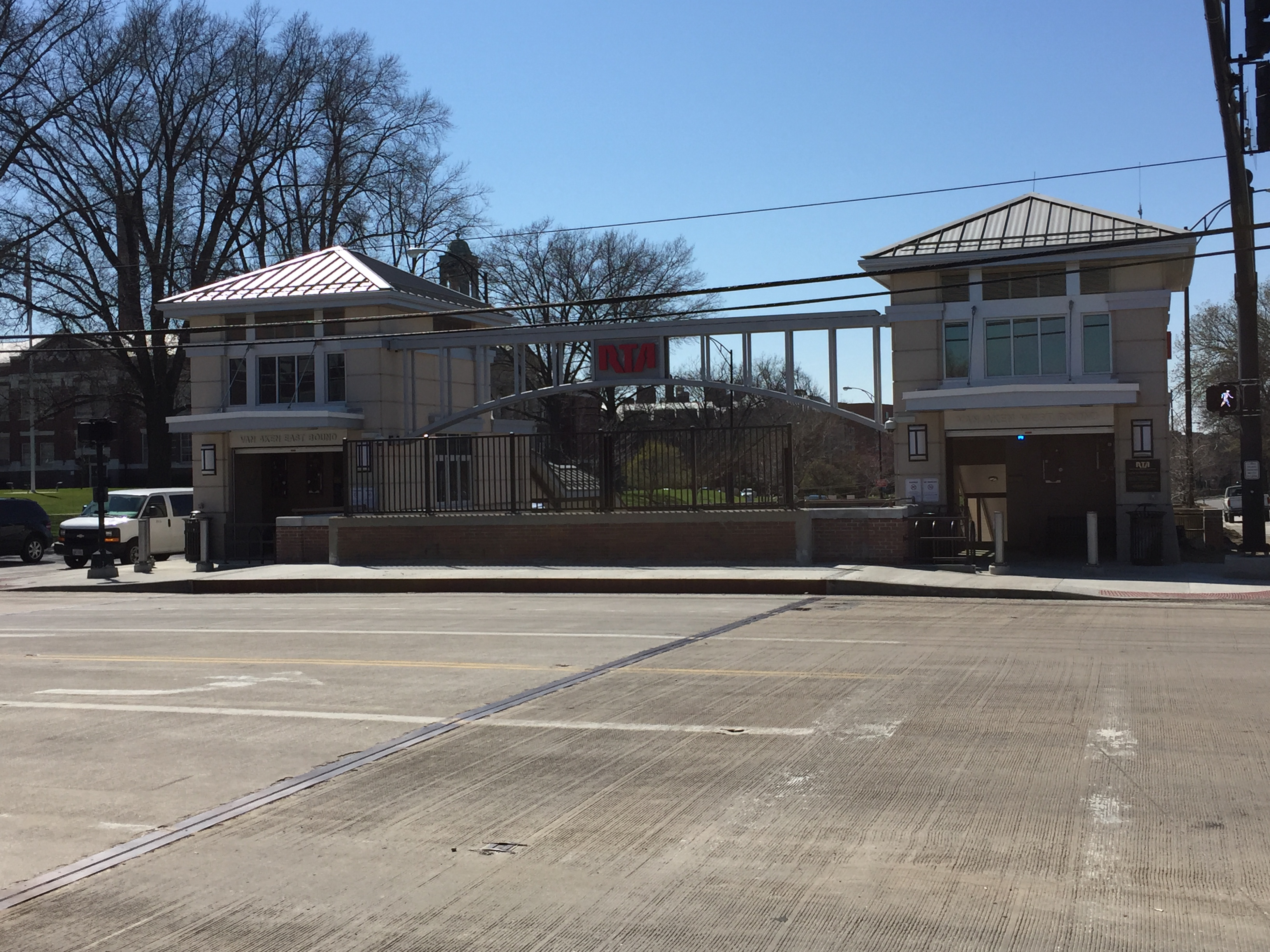 Van Aken - Lee Rapid Station on the Blue Line of the Cleveland RTA Rapid Transit in April 2016